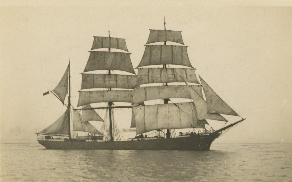 The Birkdale under sail. The steel barque 'Birkdale', 1483 tons, under sail. [steel barque 1483 tons. ON99401, 248.5 x 37.5 x 21.7. Built 1892 (5) CJ Bigger Londonderry. Owners P. Iredale and Porter, registered Liverpool. Sold 1897 Chadwick Wainbright and Co. later G. Ronald (of Callao) still retained British registry. Wrecked near Cape Horn, on Lobos Island in 1927.] This image is from the A.D. Edwardes Collection of about 8,000 photographs, mostly of sailing ships from around the world, taken between about 1865 and 1920. Mounted in 91 albums, This from the volume titled 'British Owned Iron and Steel Barques (III)'.